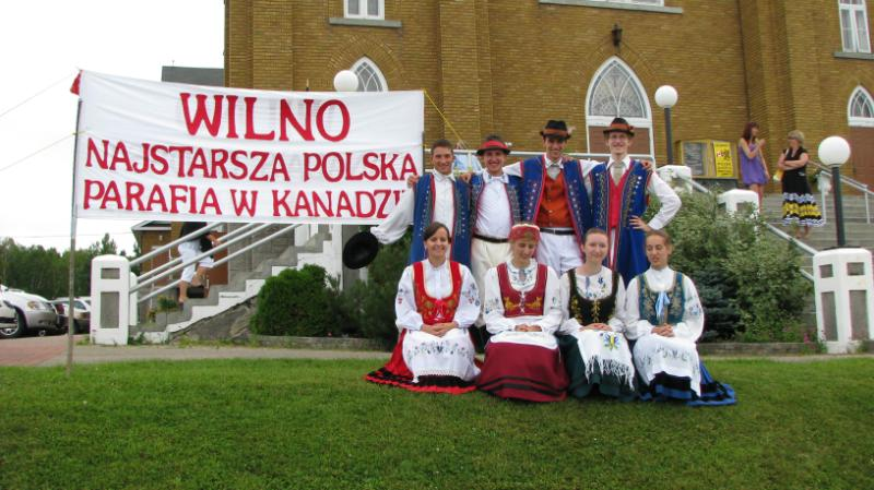 Welcome from wilno ontario